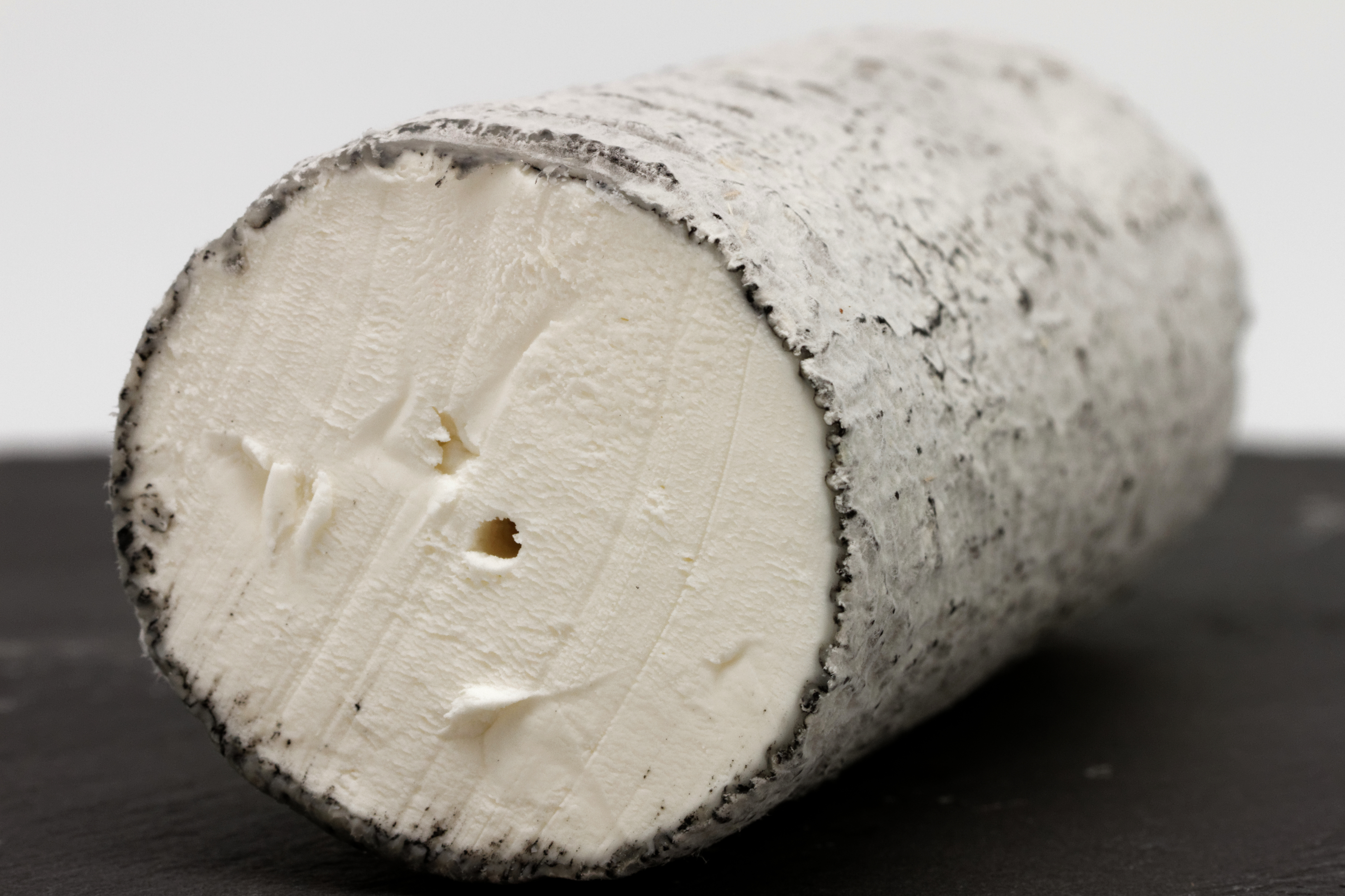 half Sainte-Maure de touraine (goat's milk cheese)